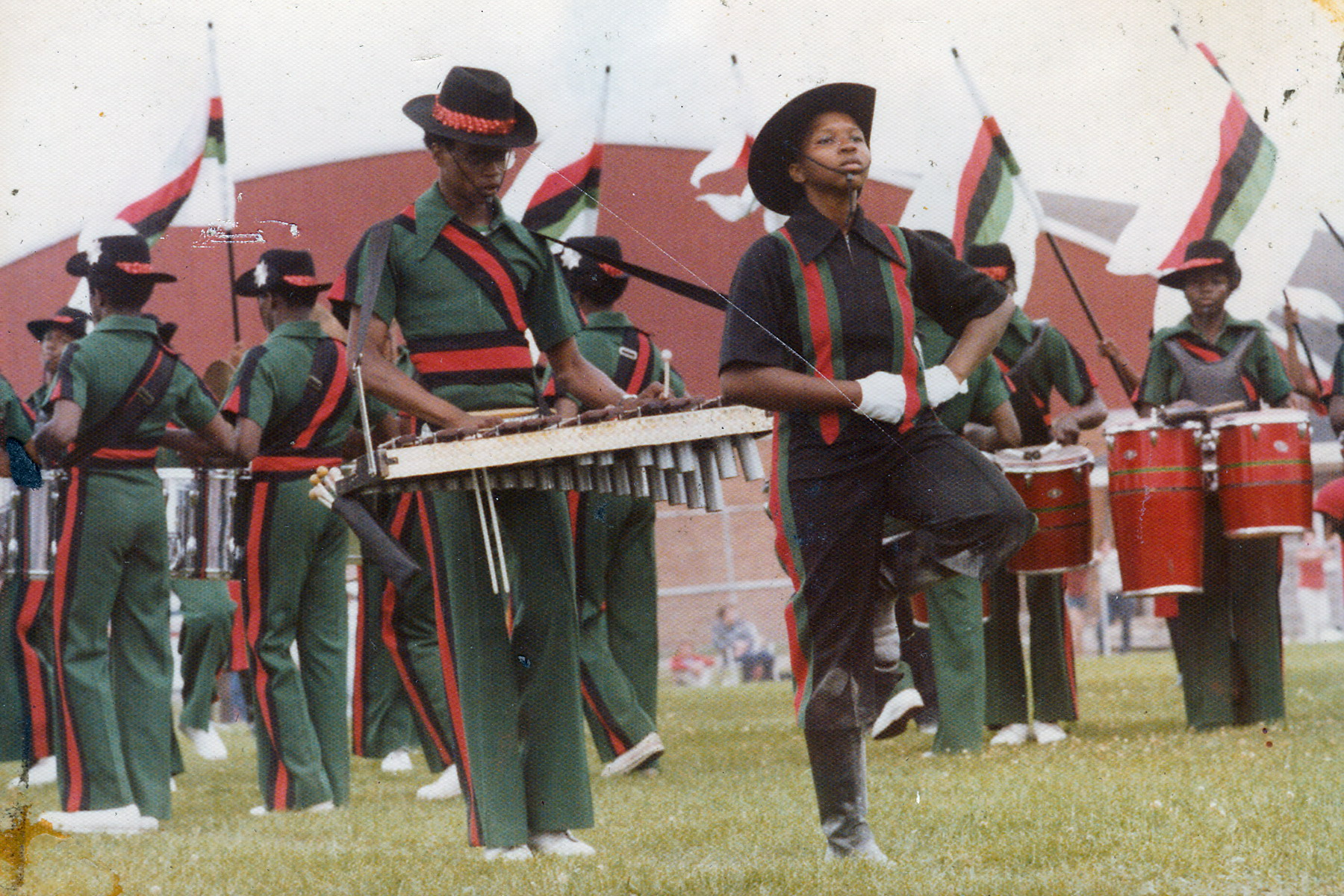 Mighty Liberators Drum and Bugle Corps on the field of competition